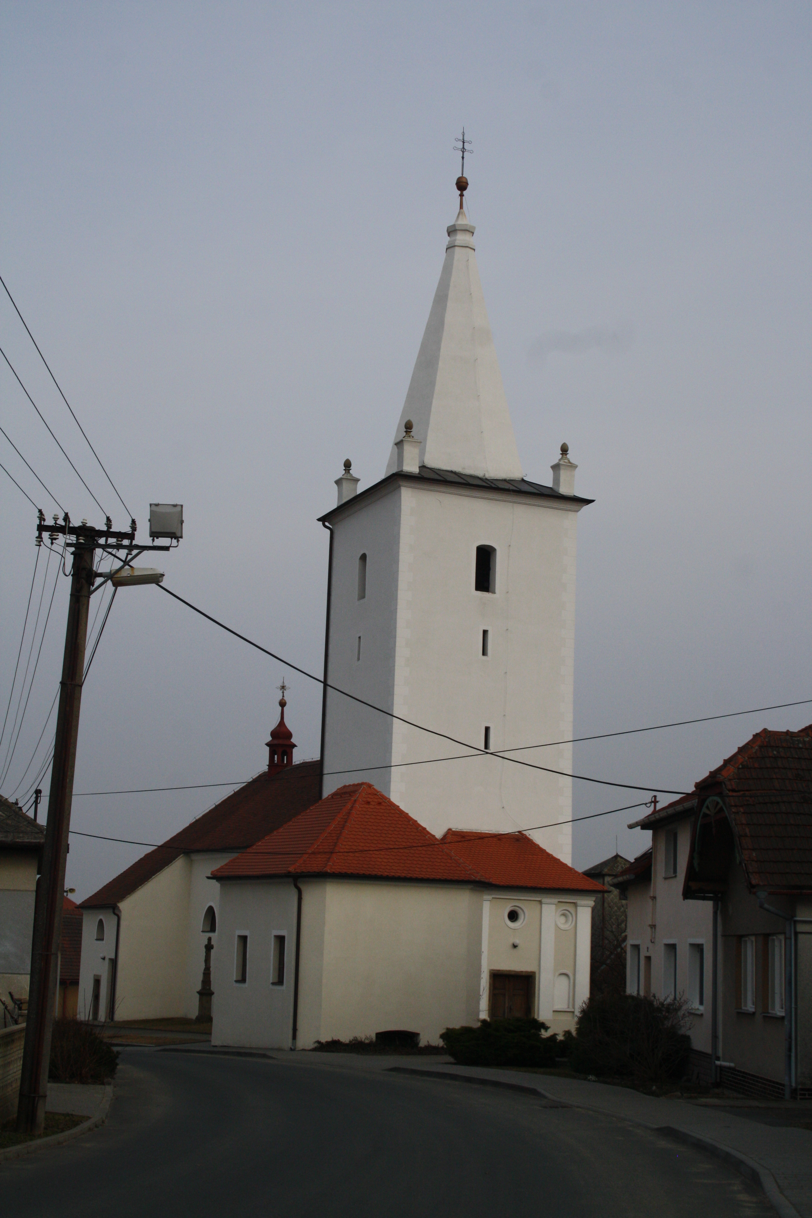 Front view of Church of Exaltation of the Holy Cross in Valeč.